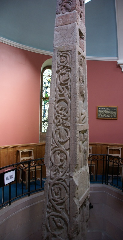 Ruthwell Cross, Ruthwell and Mount Kedar Church, Ruthwell, Dumfries and Galloway, Scotland. West side.